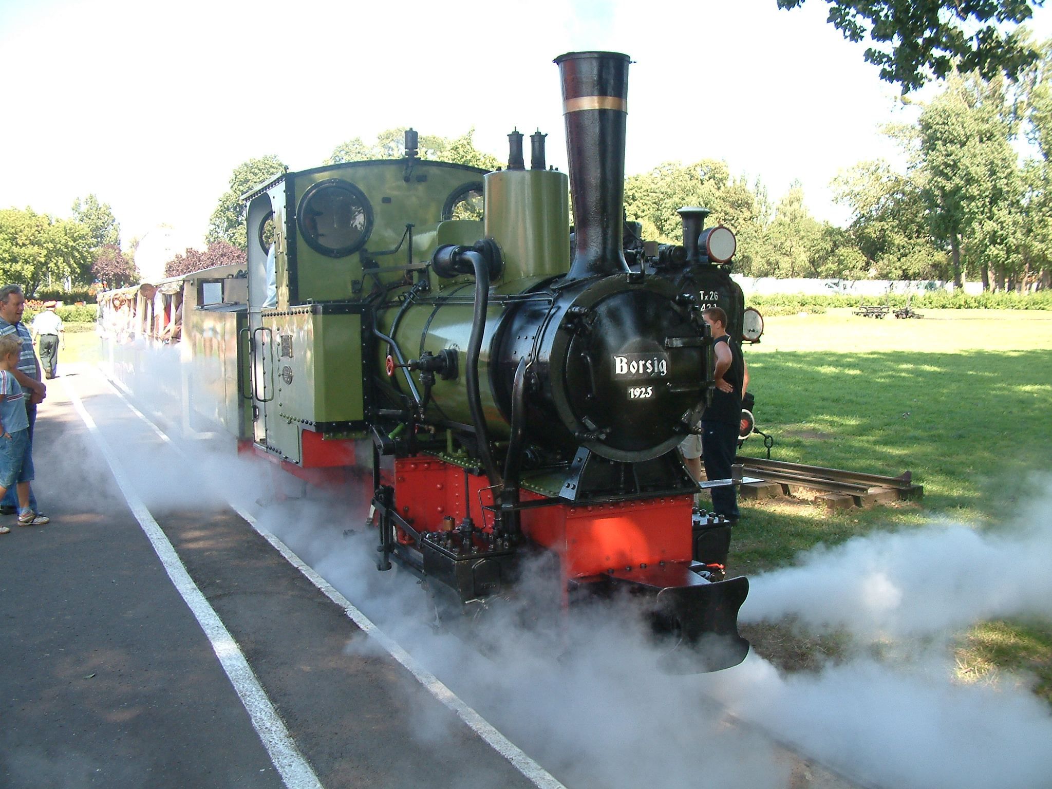 600mm gauge steam locomotive Bn2t 11458 "Borsig" build in 1925 on Maltanka line, Poznań